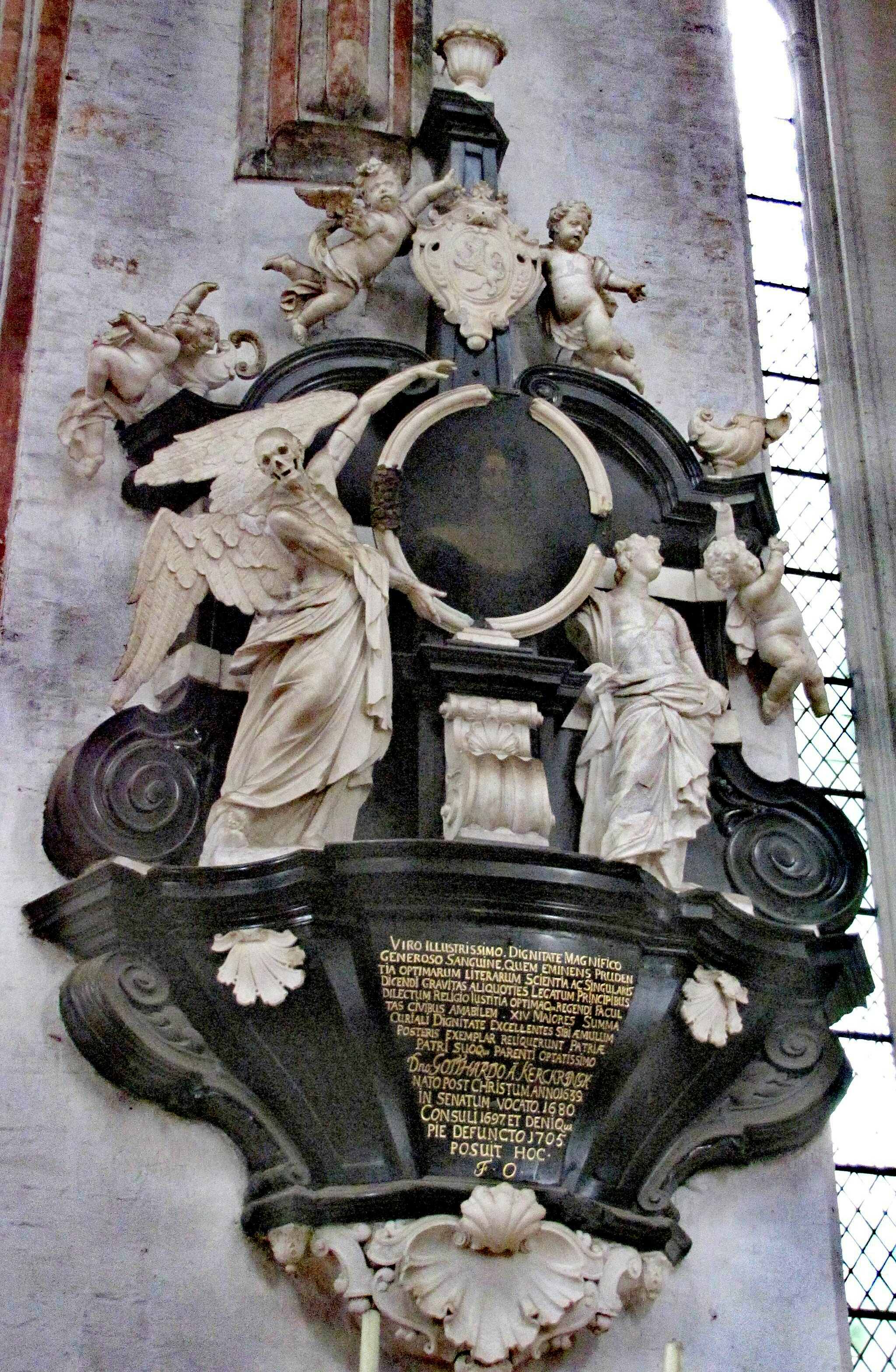 Epitaph for Gotthard Kerkring (1639-1705) by Hans Freese (Bildhauer)